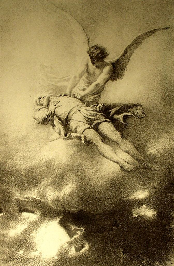 Mihály Zichy - Illustration to Imre Madách's The Tragedy of Man - In Space (Scene 13)